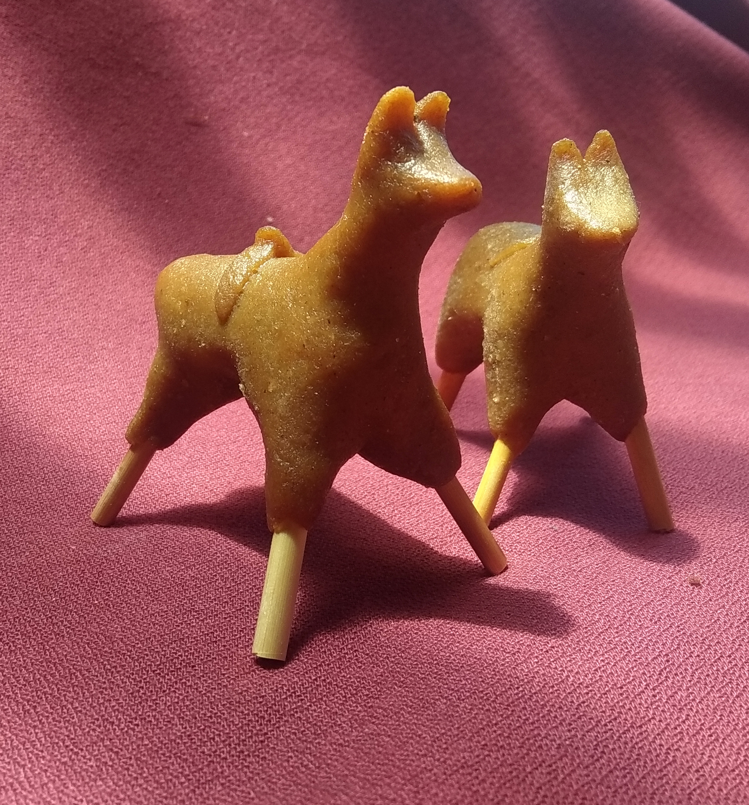 Quispiña llamas, Todos Santos, Bolivia